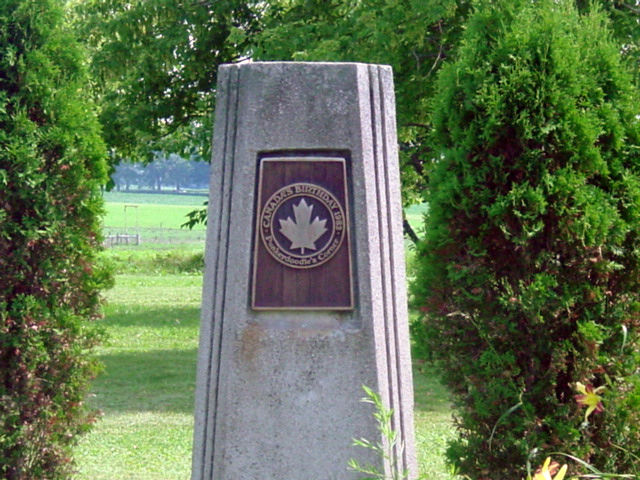 A monument on Punkeydoodles Ave. in Punkeydoodle's Corners, Ontario. The monument commemorates Canada Day 1982, when the Rt. Honourable Joe Clark visited the location for the occasion.